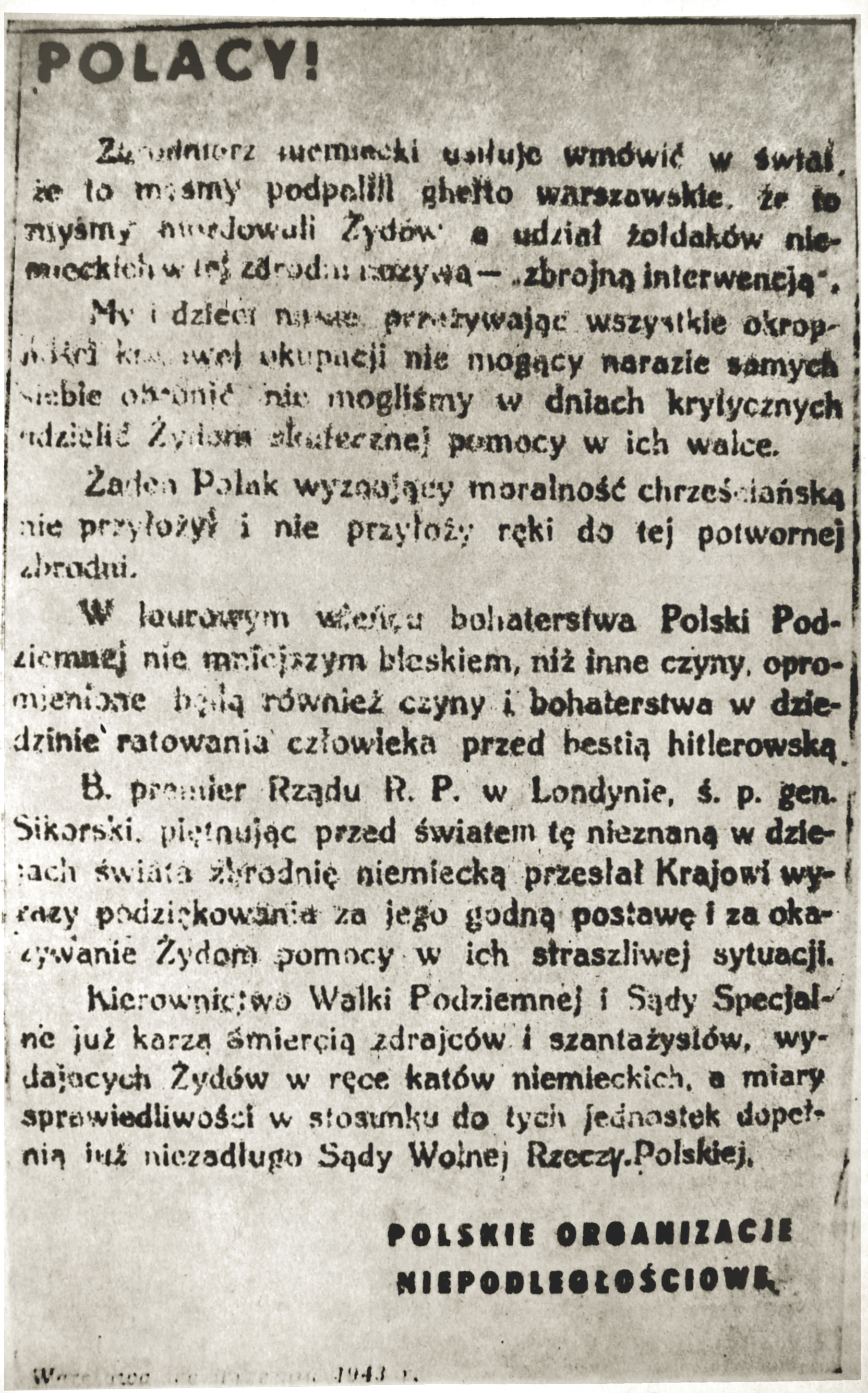 Council to Aid Jews communiqué published in September 1943 by Rada Pomocy Żydom warning about death sentence for denunciations of Jews to the Nazis.[1]